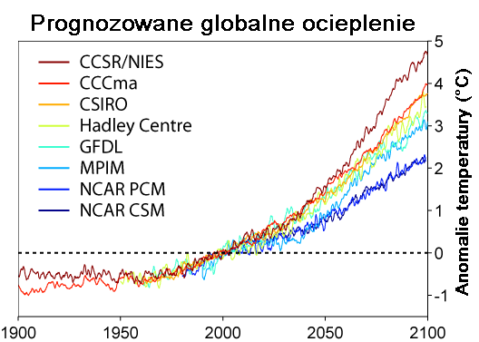 A map of predicted global warming at the end of the 21st century accourding to the HADCM3 climate model with a business-as-usual emissions scenario (IS92a). This model has an average warming of 3.0°C Shows climate model predictions for global warming under the SRES A2 emissions scenario relative to global average temperatures in 2000. The A2 scenario is characterized by a politically and socially diverse world that exhibits sustained economic growth but does not address the inequities between rich and poor nations, and takes no special actions to combat global warming or environmental change issues. This world in 2100 is characterized by large population (15 billion), high total energy use, and moderate levels of fossil fuel dependency (mostly coal). The A2 scenario is the most well-studied of the SRES scenarios that assume no attempt to address global warming. The IPCC predicts global temperature change of 1.4-5.8°C due to global warming from 1990-2100 [1]. As evidenced above (a range of 2.5°C in 2100), much of this uncertainty results from disagreement among climate models, though additional uncertainty comes from different emissions scenarios.